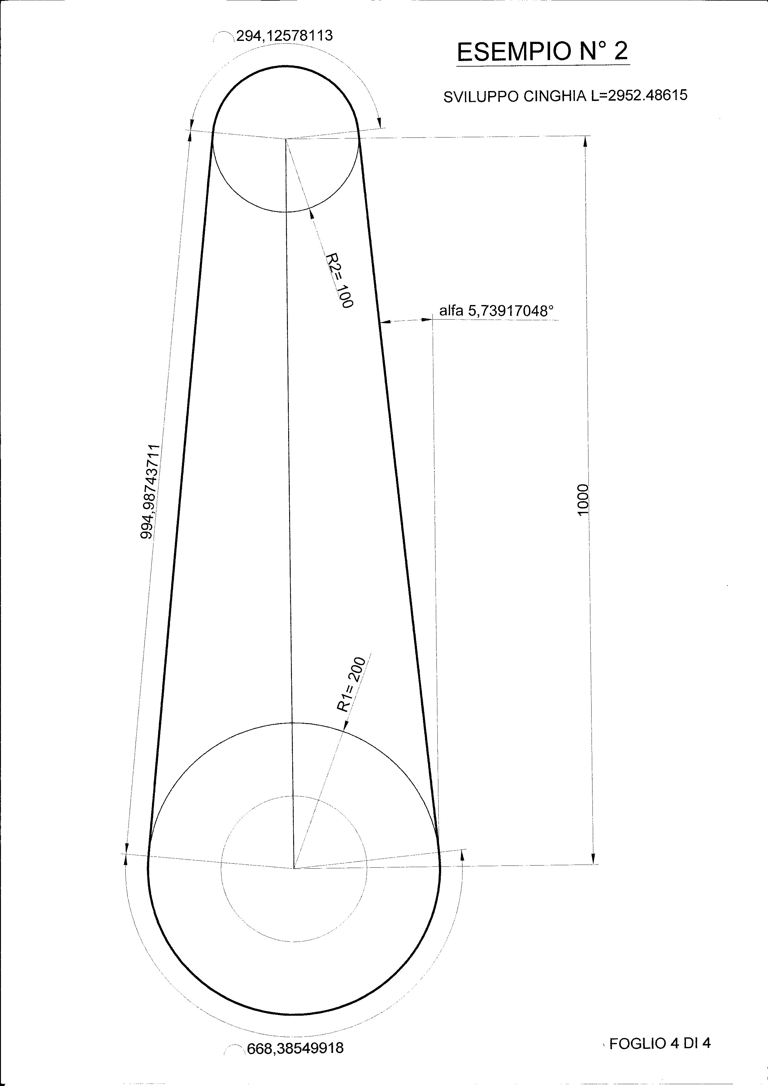 Esempio 2